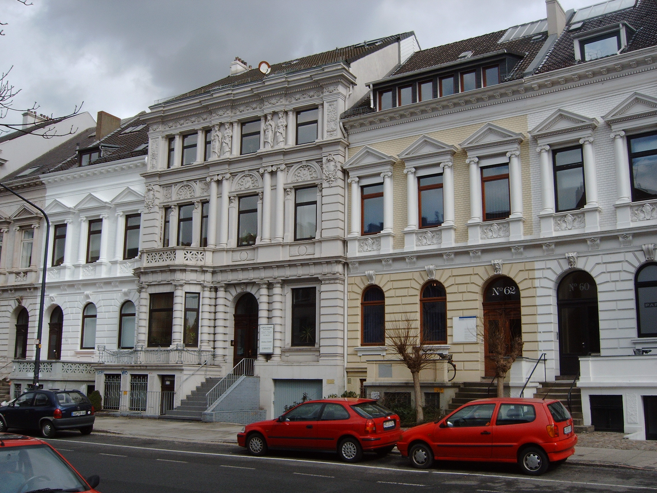 Graf-Moltkes str. Bremen, Germany Down town